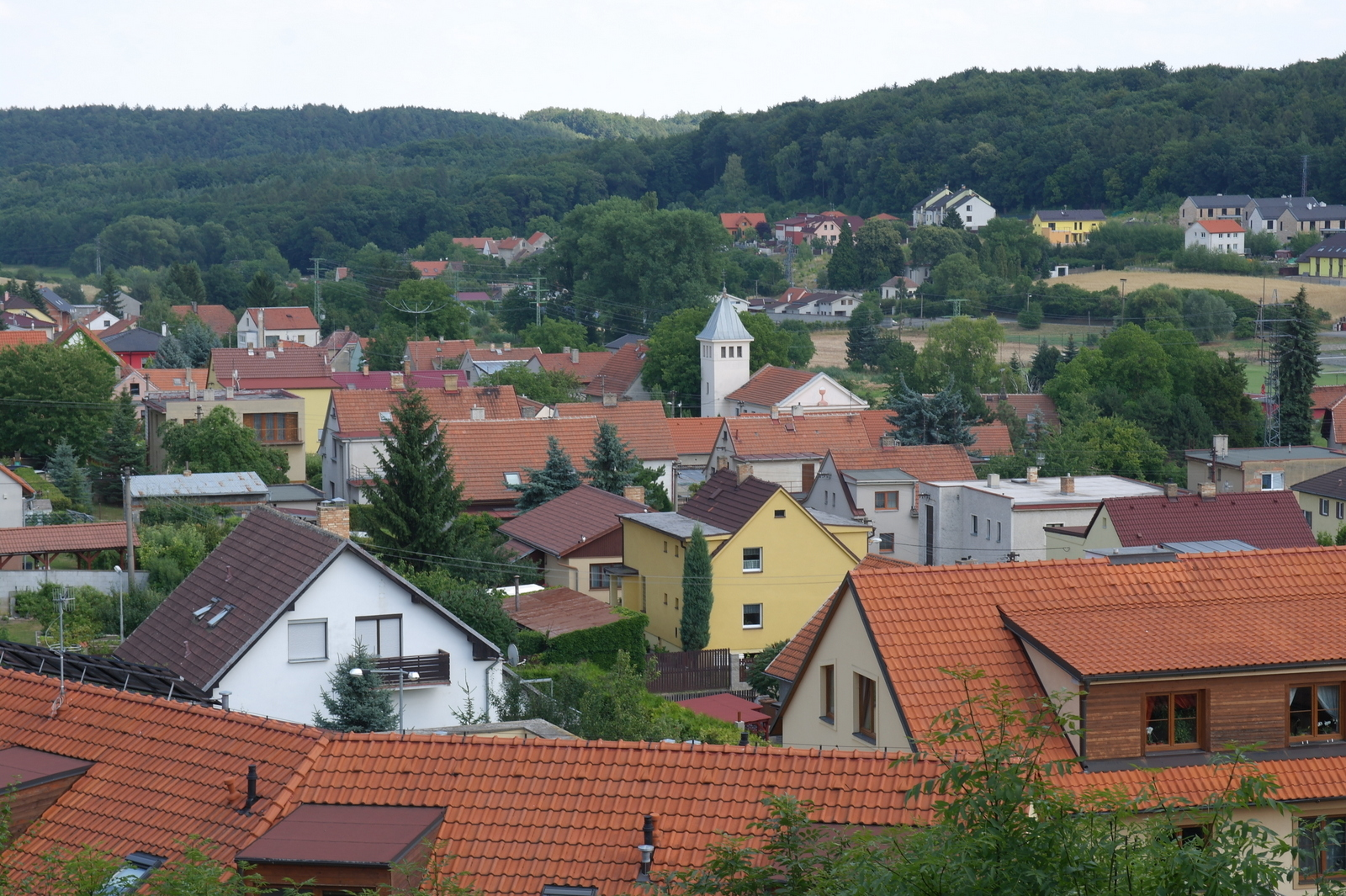 Tuchoměřice. View from the castle.